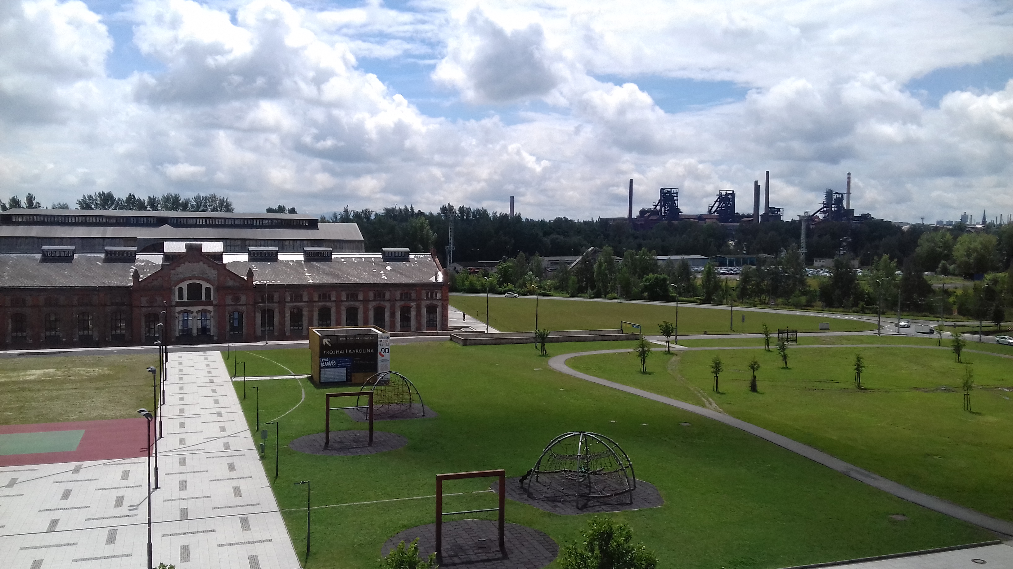 view of the former Karolina Mine in Ostrava, Czech Republic. Left: Trojhalí buildings. Horizon: Coal and Iron works in Dolní Vítkovice